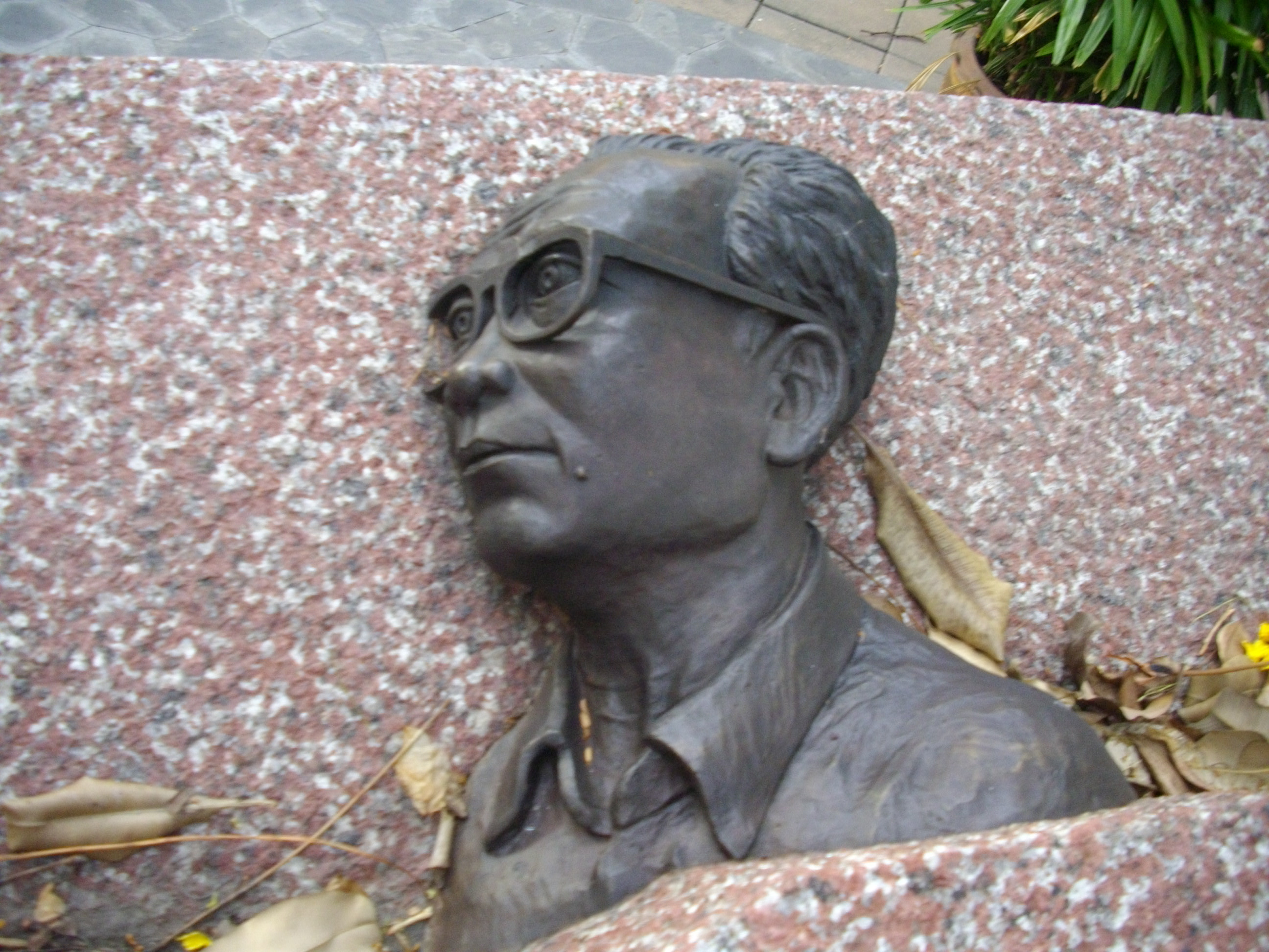 High relief of Dr. Puey Ungpakorn in the sculpture of 6 October 1976 Massacre Memorial at Thammasat University, Bangkok, Thailand.